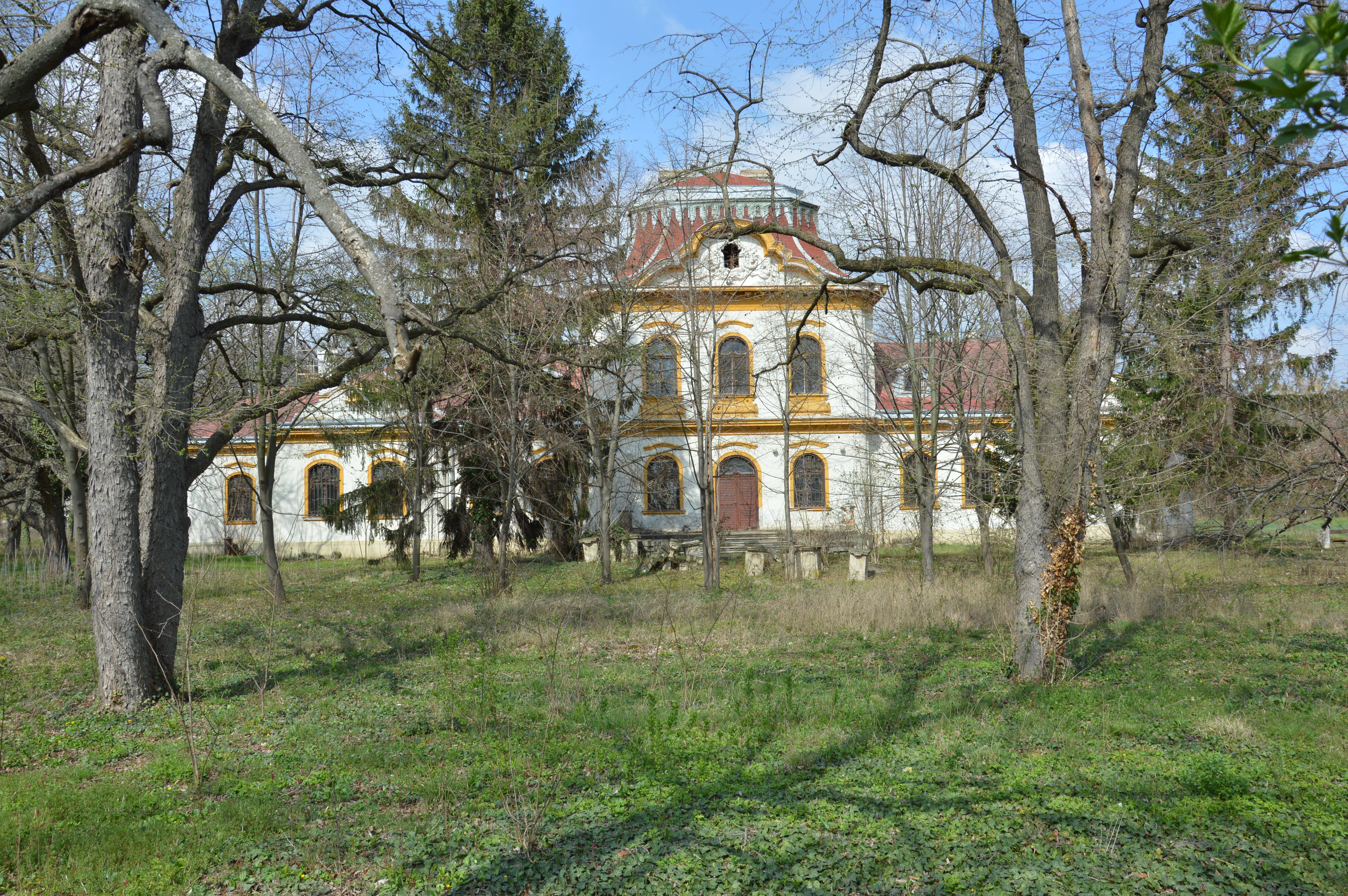 Hauszmann-Gschwind Mansion at Ország utca 23 in Velence, Hungary.